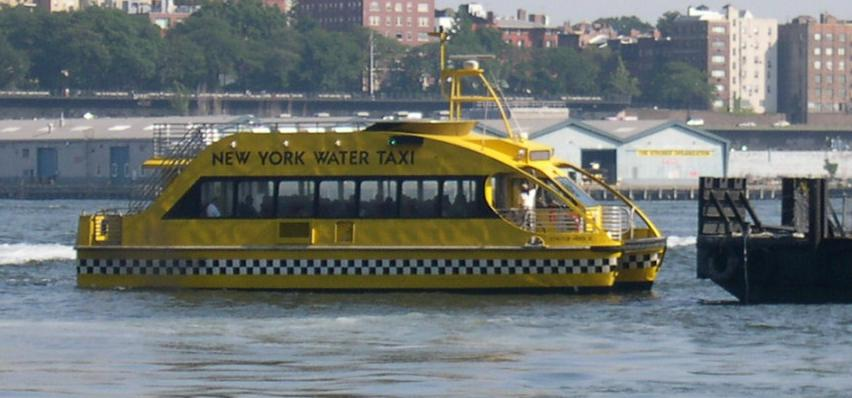 A New York Water Taxi docks at Pier 11 near Wall Street in Manhattan